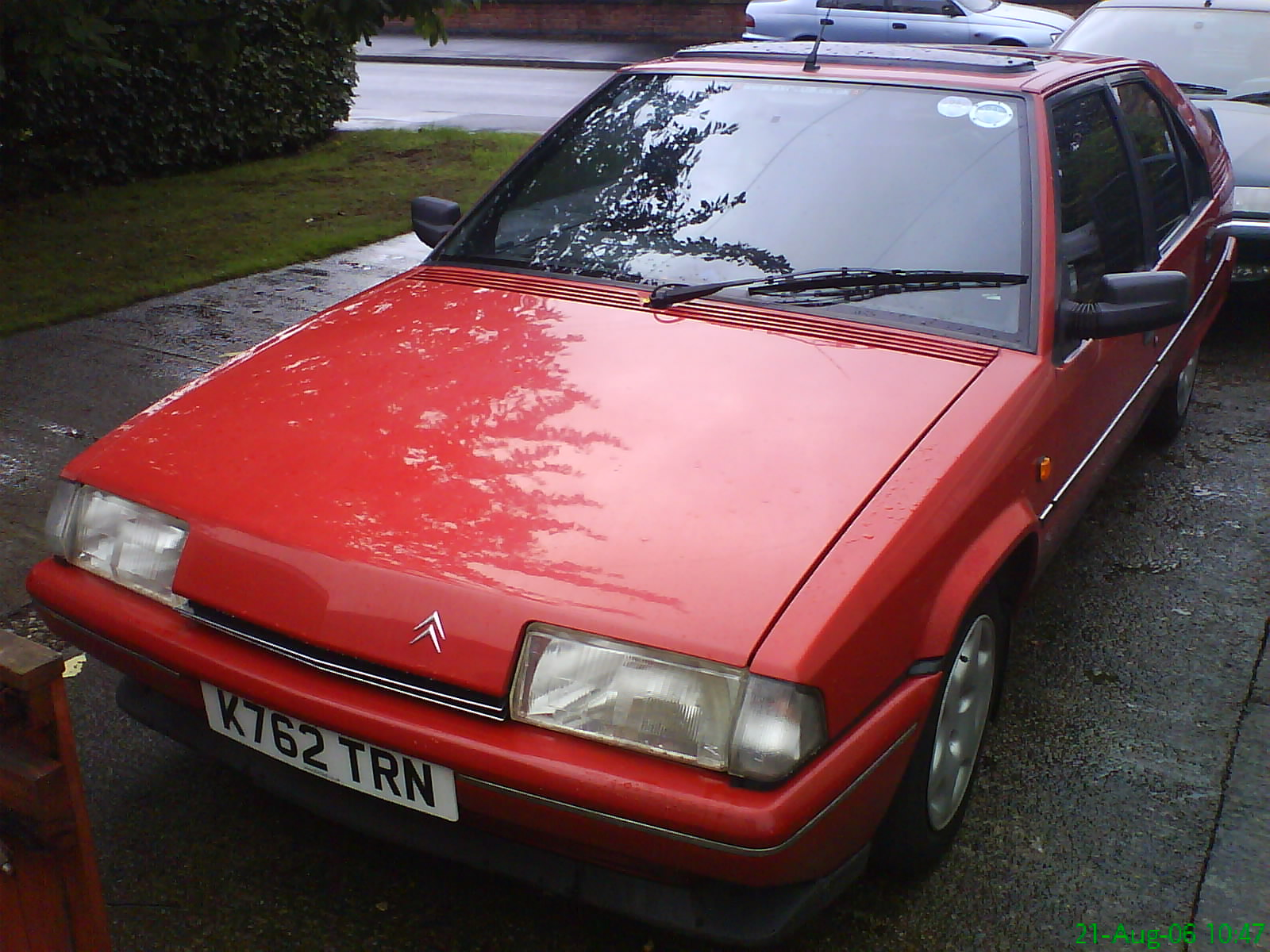 Citroen BX-athon - Red TXD 1.9 Diesel.